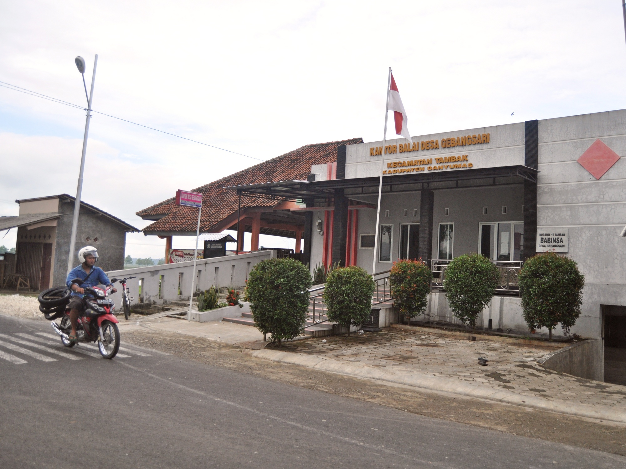 Gebangsari Village office, Banyumas, Central Java.